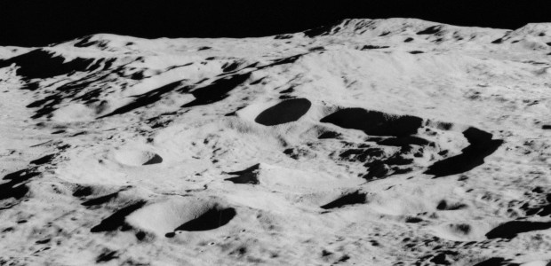 Oblique view of O'Day crater, on the far side of the moon, facing south.